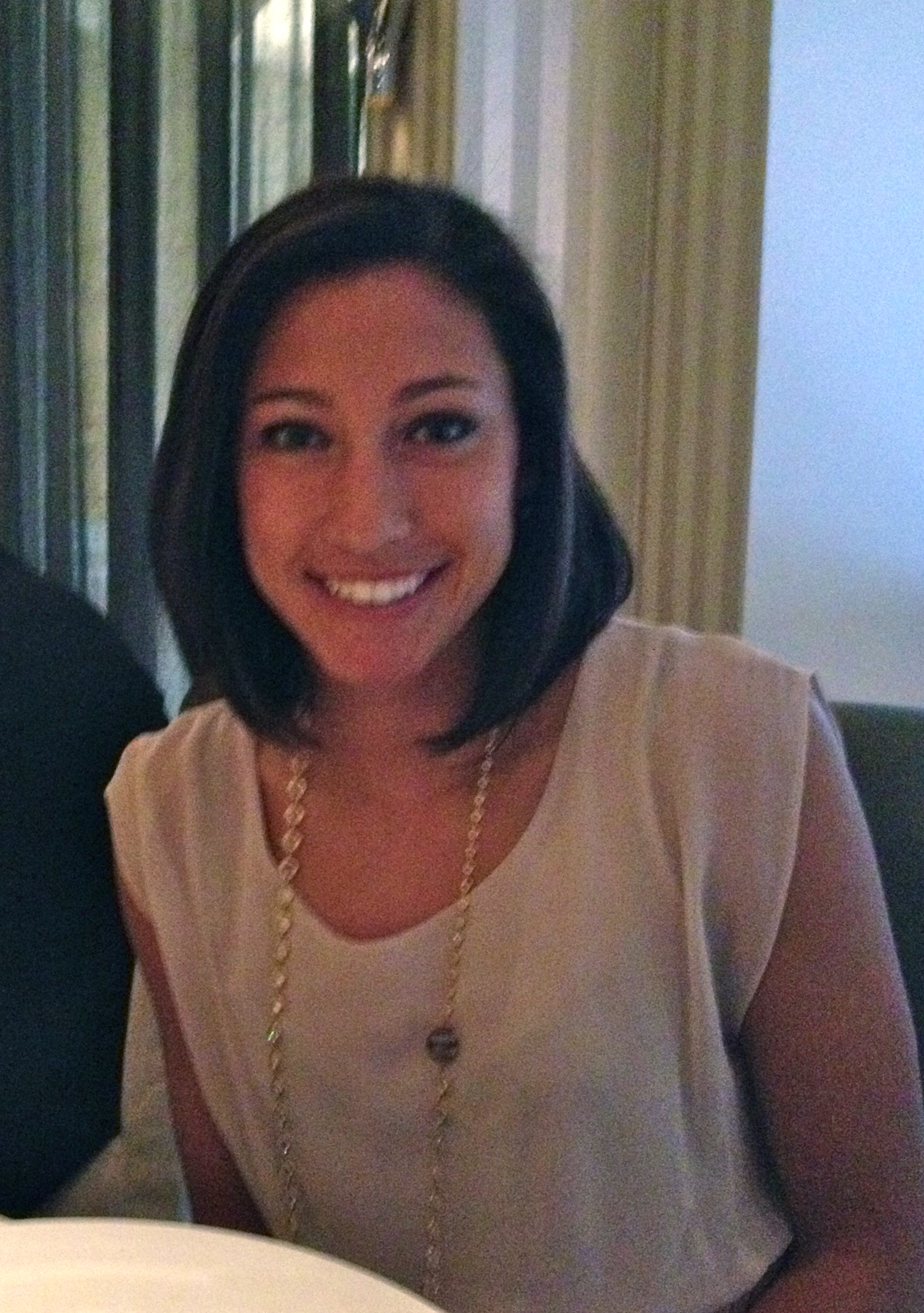 Christen Press, Gothenburg, Sweden